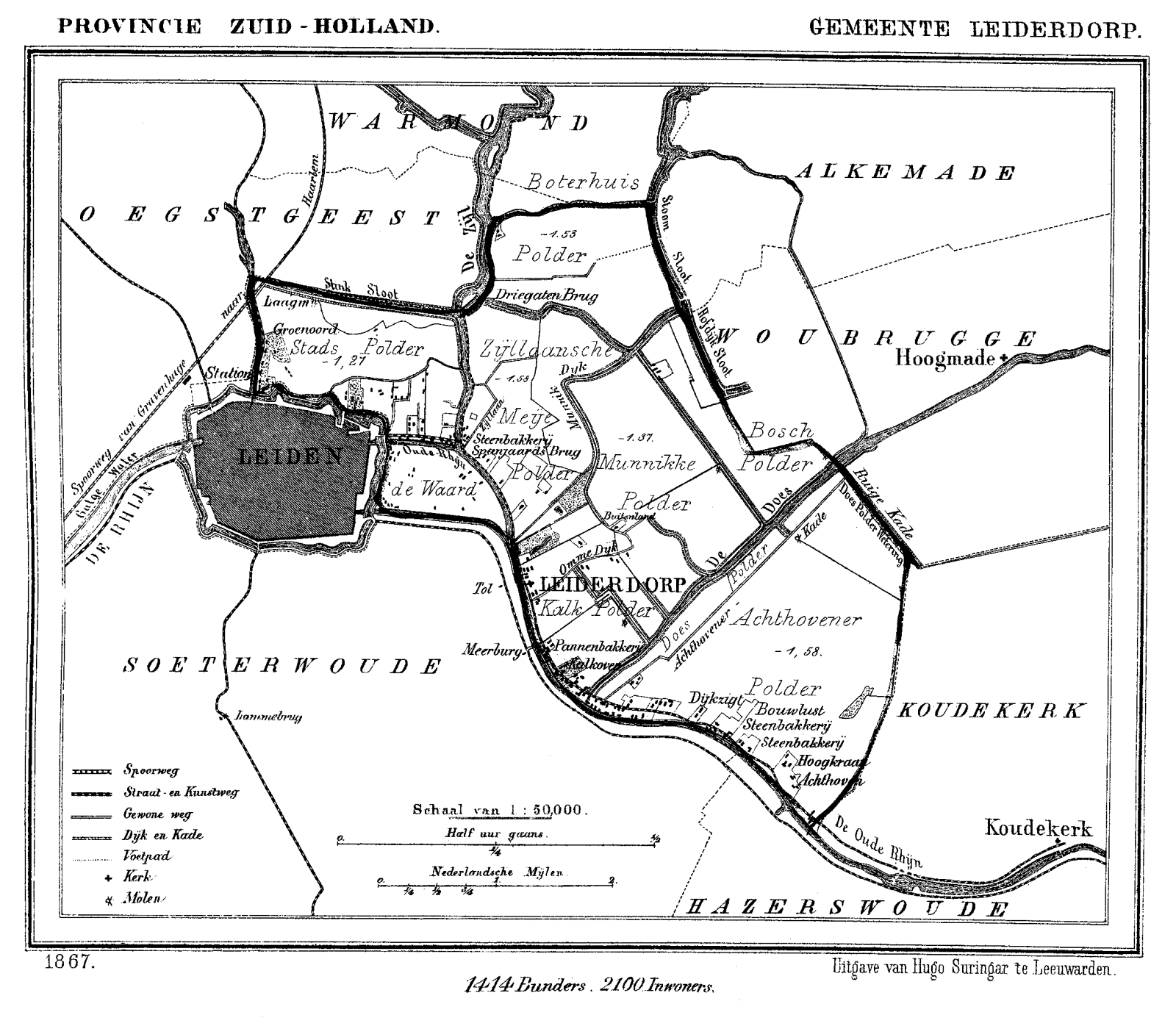 Historic map of Leiderdorp, South Holland, the Netherlands